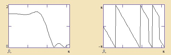 Amplitude response and phase response of a linear phase FIR system.